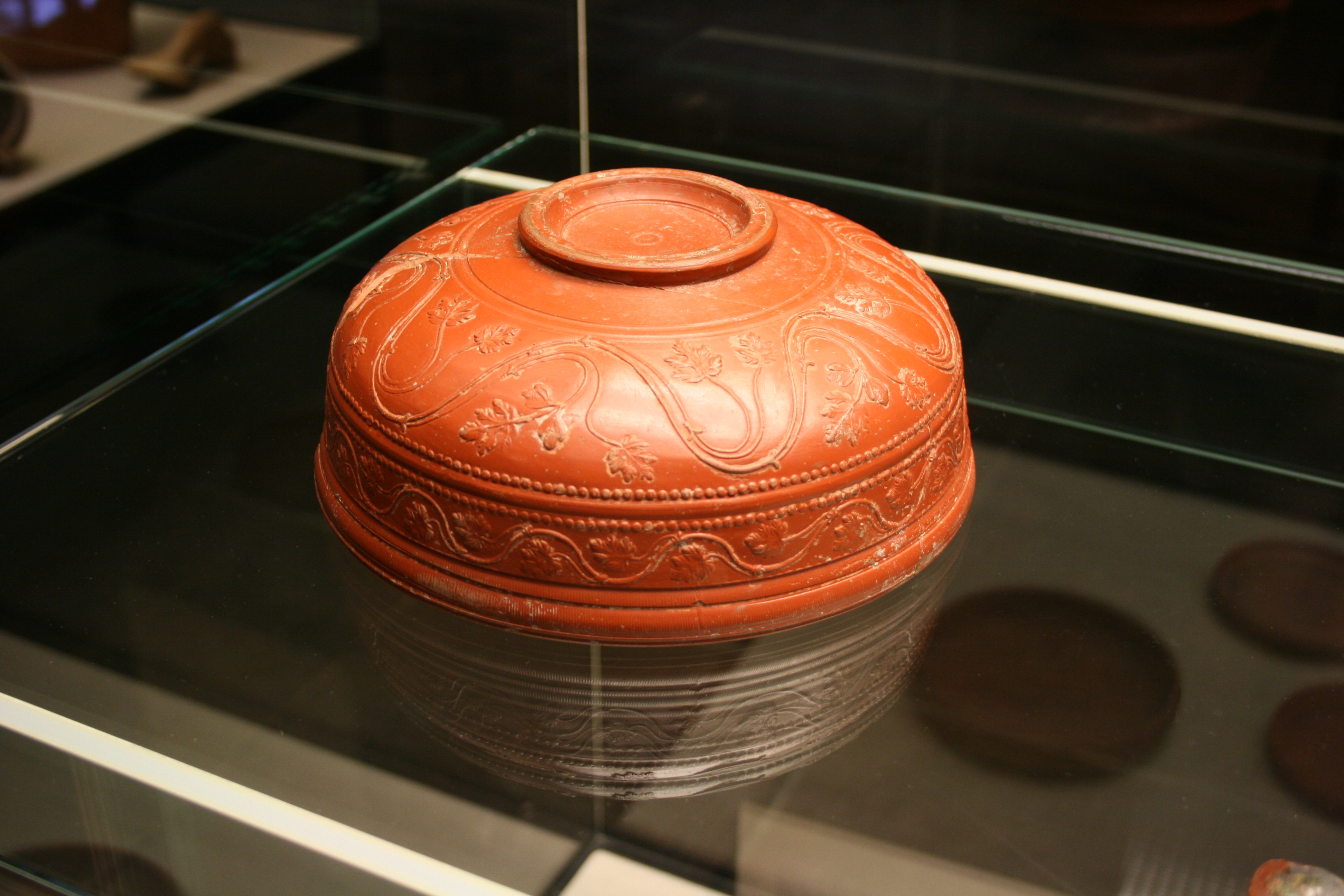 Terra Sigillata-bowl Dragendorff 29 (Römerhalle Bad Kreuznach, stamped OFIC BILICAT = Bilicatus, La Graufesenque).